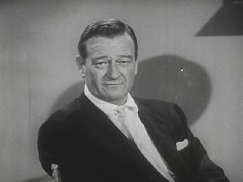 Screenshot of John Wayne from The Challenge of Ideas (1961) (Part 1), a PD movie.